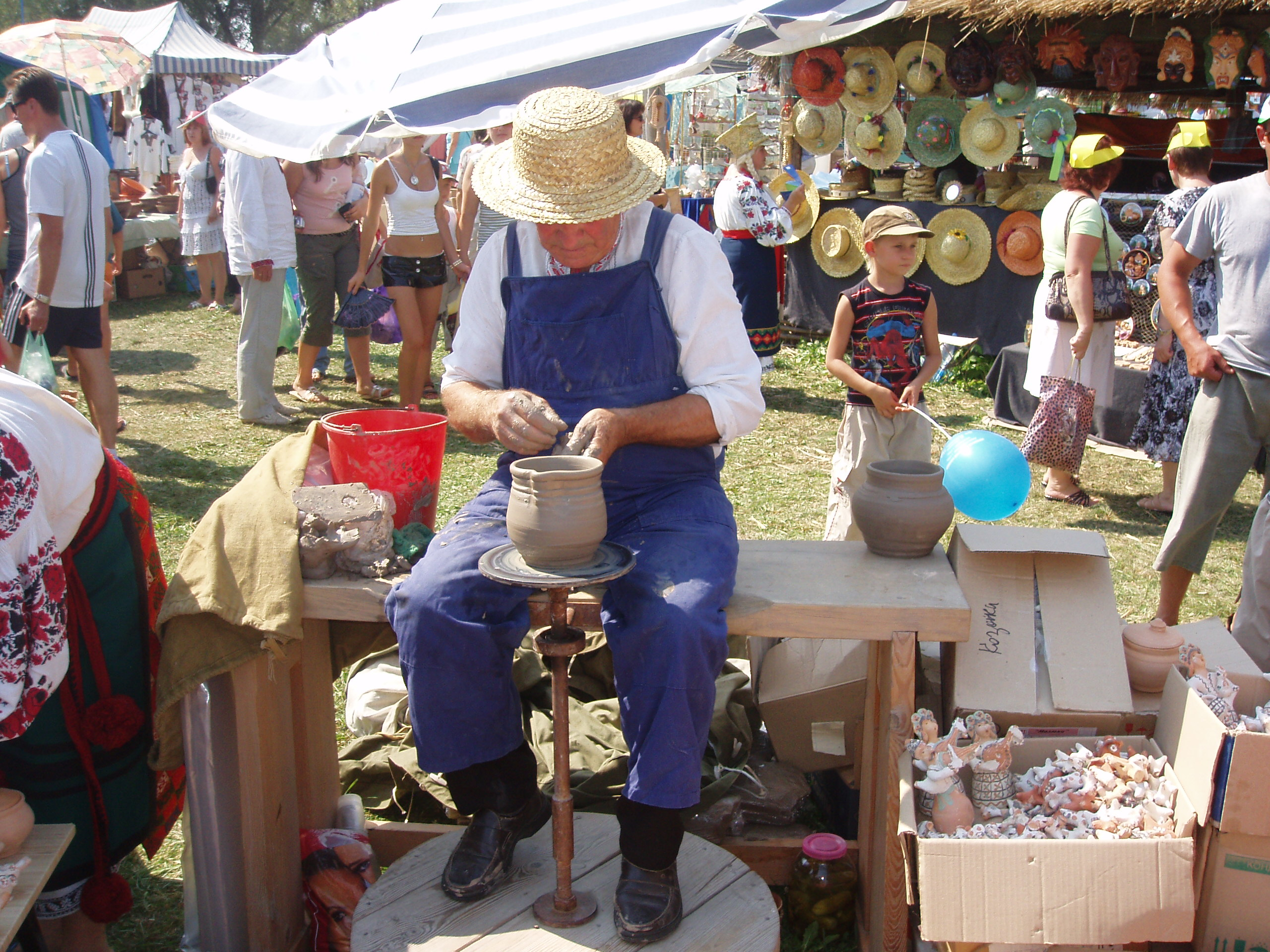 Ukrainian Potter with potter's kick wheel at the traditional Sorochyns'ky fair, Velyki Sorochyntsi, Poltava-region, Ukraine, 14th August 2008